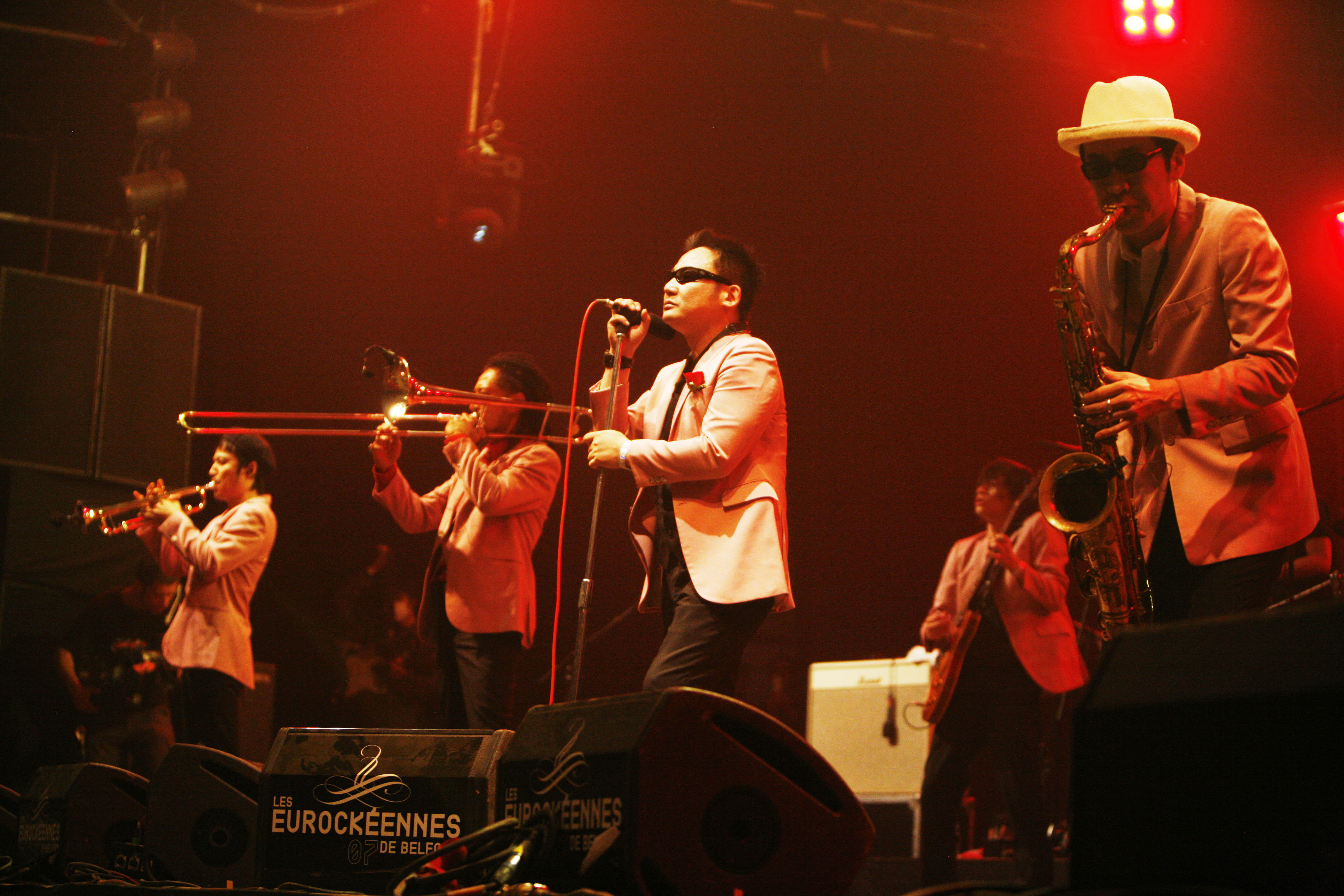 Tokyo Ska Paradise Orchestra at the Eurockéennes of 2007